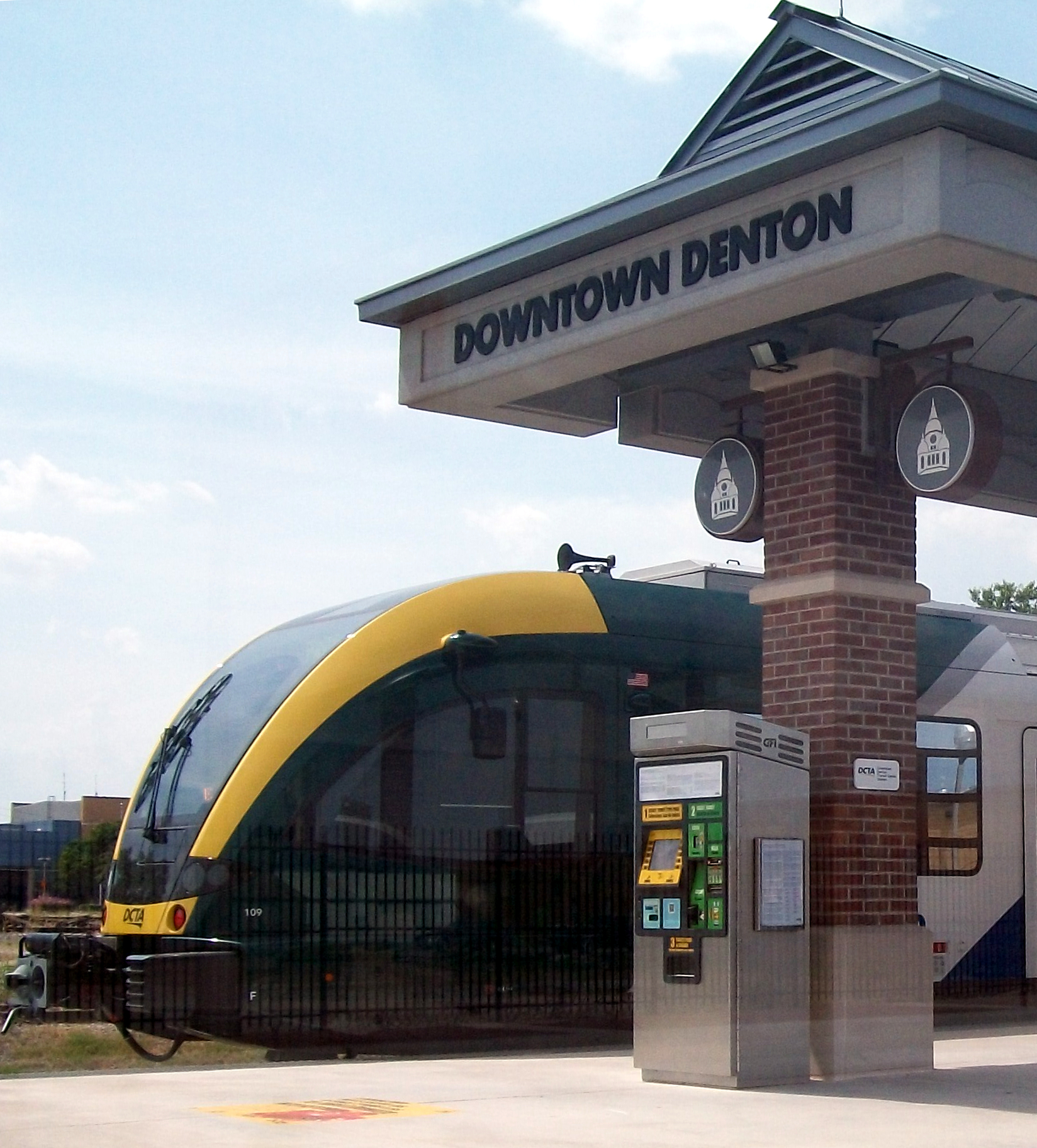 Modified version of file available here: Cropped, colors adjusted, and rotated slightly.